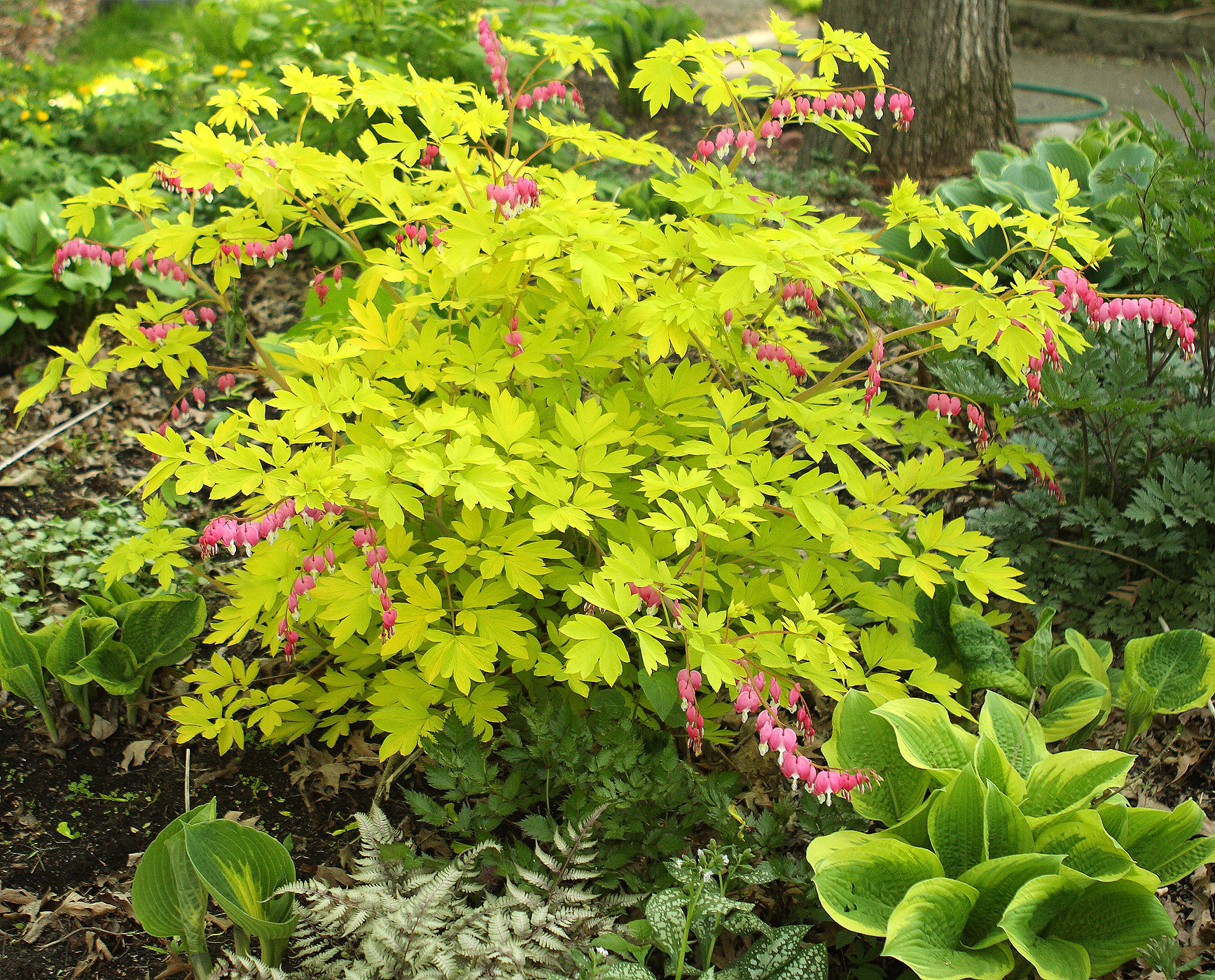 Self made picture of Dicentra spectabilis 'Gold Heart'taken in Minnesota in late spring of 2008.